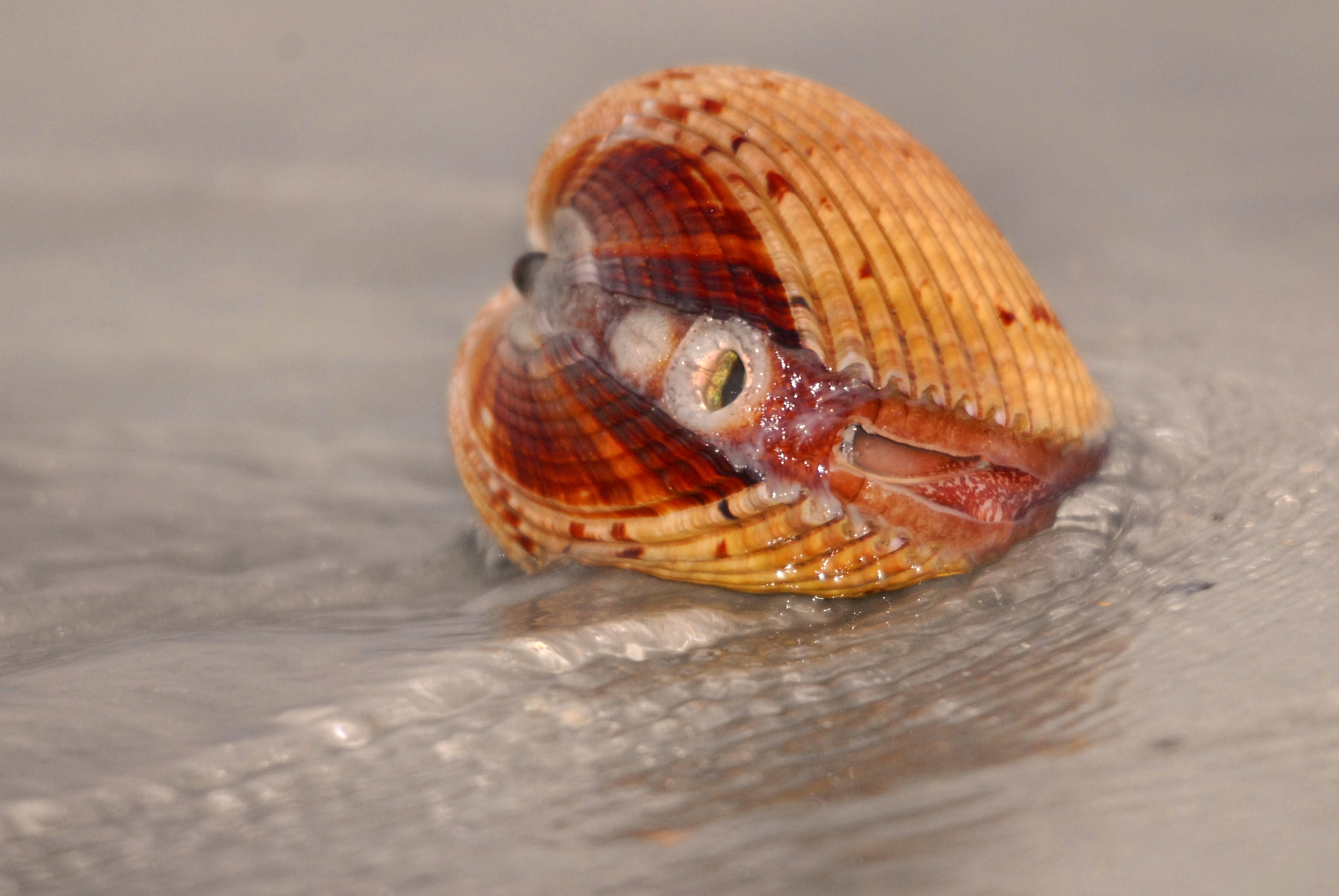 Giant Atlantic Cockle (Dinocardium robustum) at Smyrna Dunes Park